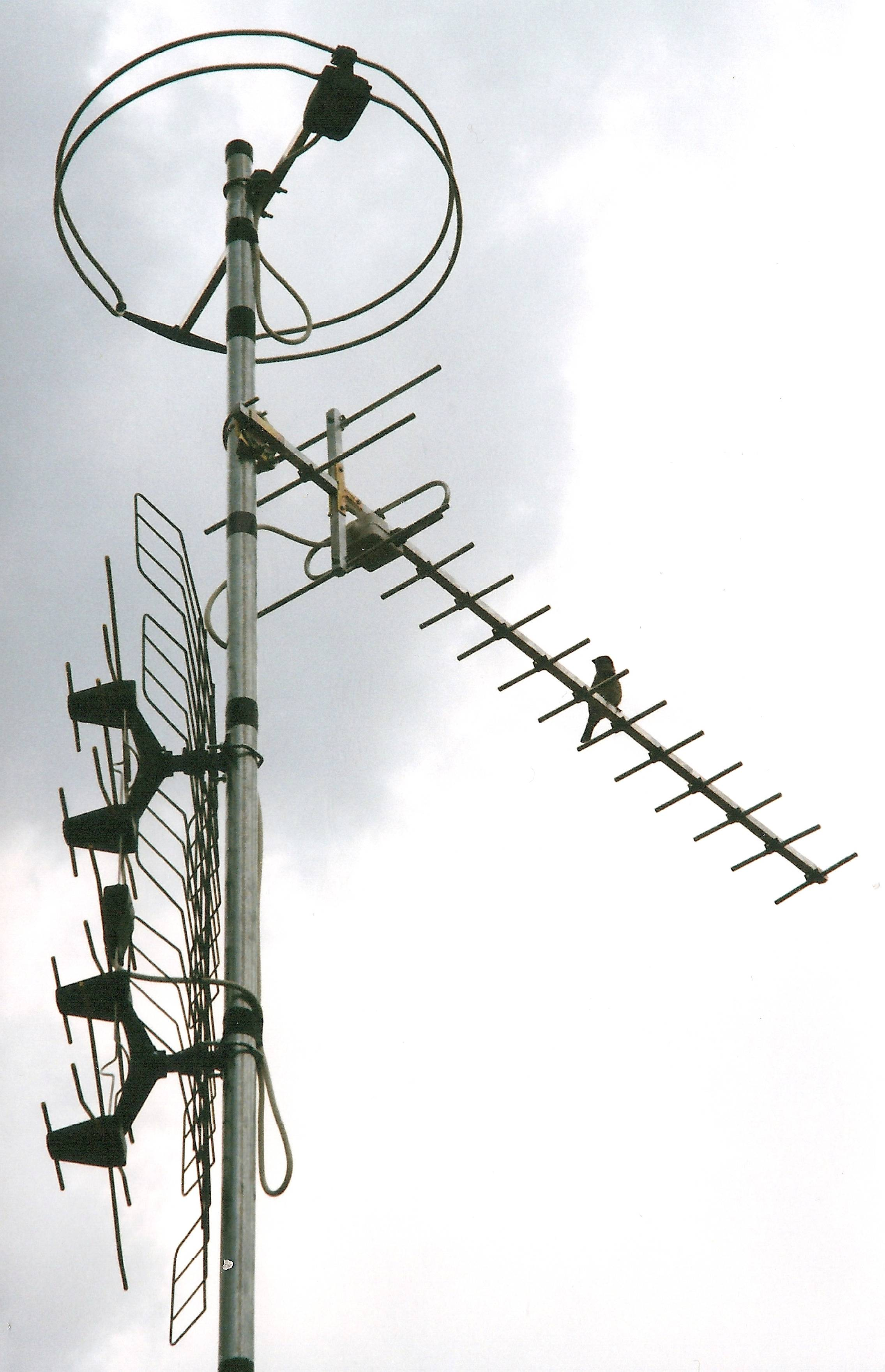 Television Antenna (the element on top is for FM radio reception)